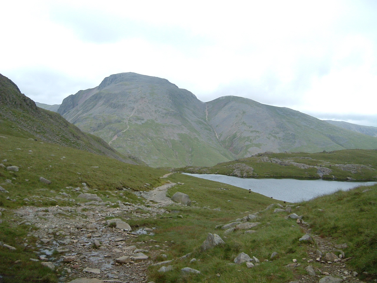 Great and Green Gable from Sprinkling Tarn. Green Gable is the smaller hump on the right. Taken by James@hopgrove, 10/7/2007